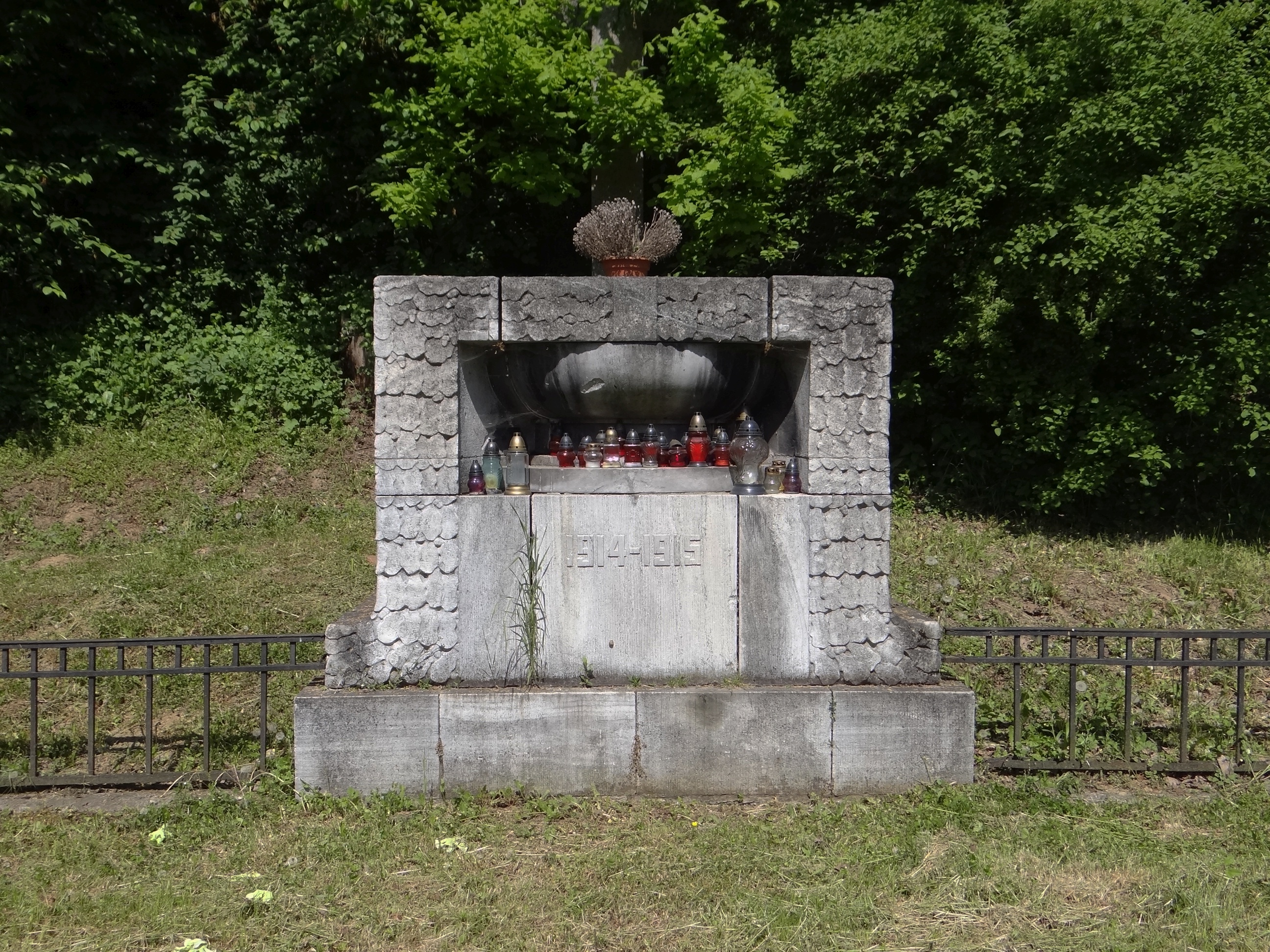 World War I Cemetery nr 146 in Gromnik